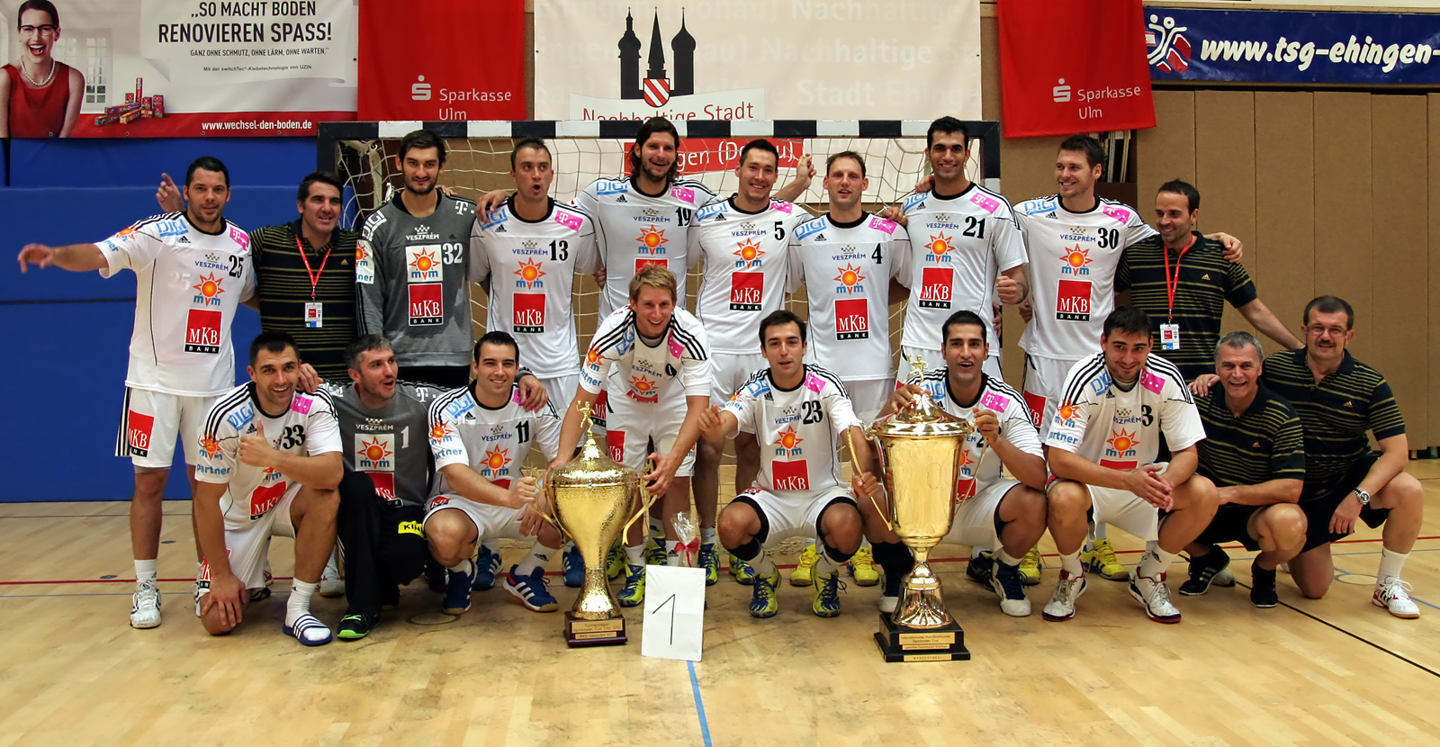 The handball team of KC Veszprém (MKB Veszprém Kézilabda), on August 18th, 2012 in Ehingen (Germany), winning the Sparkassen Cup (formerly known as Schlecker Cup).